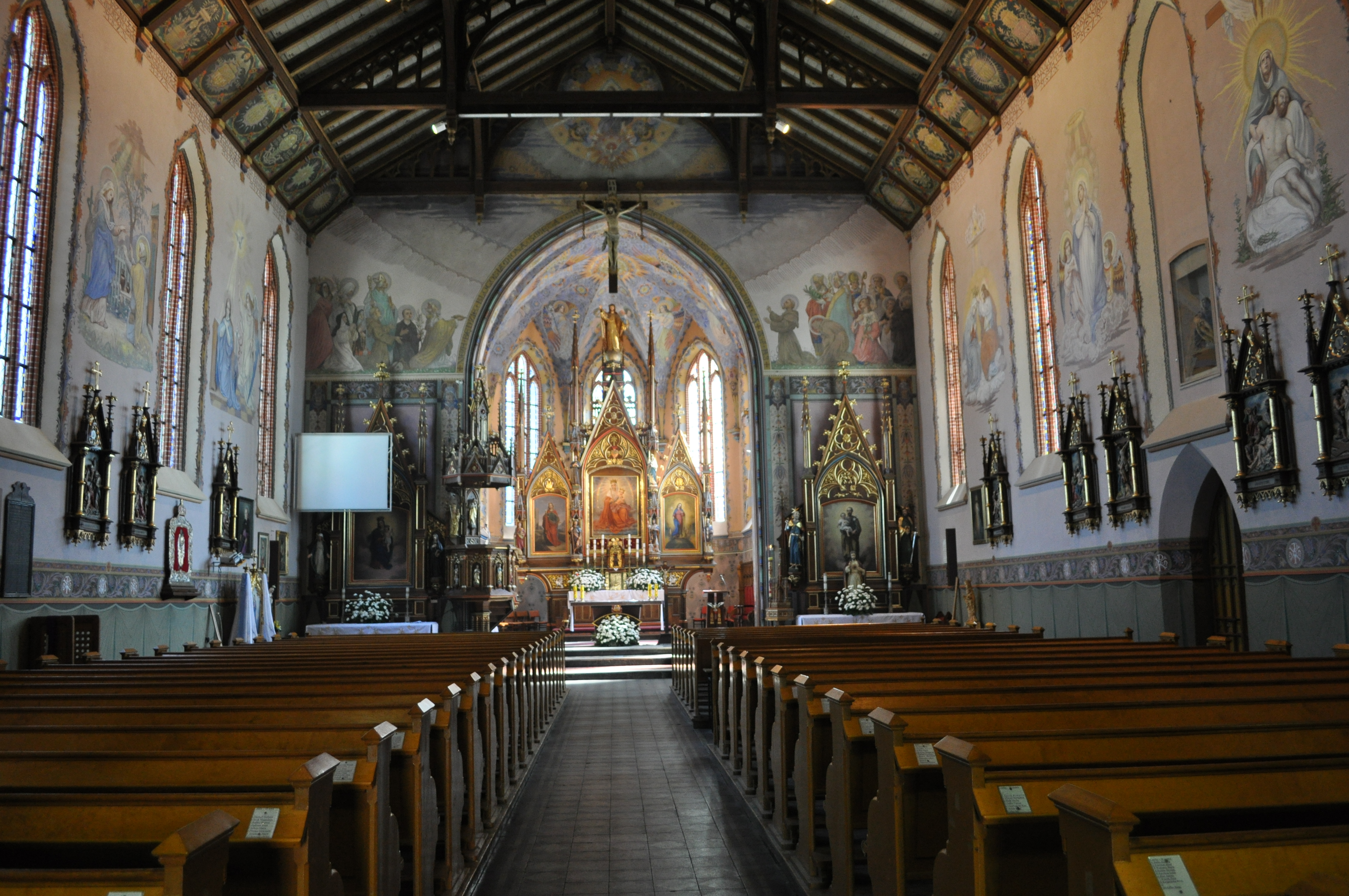 Church in Swarzewo